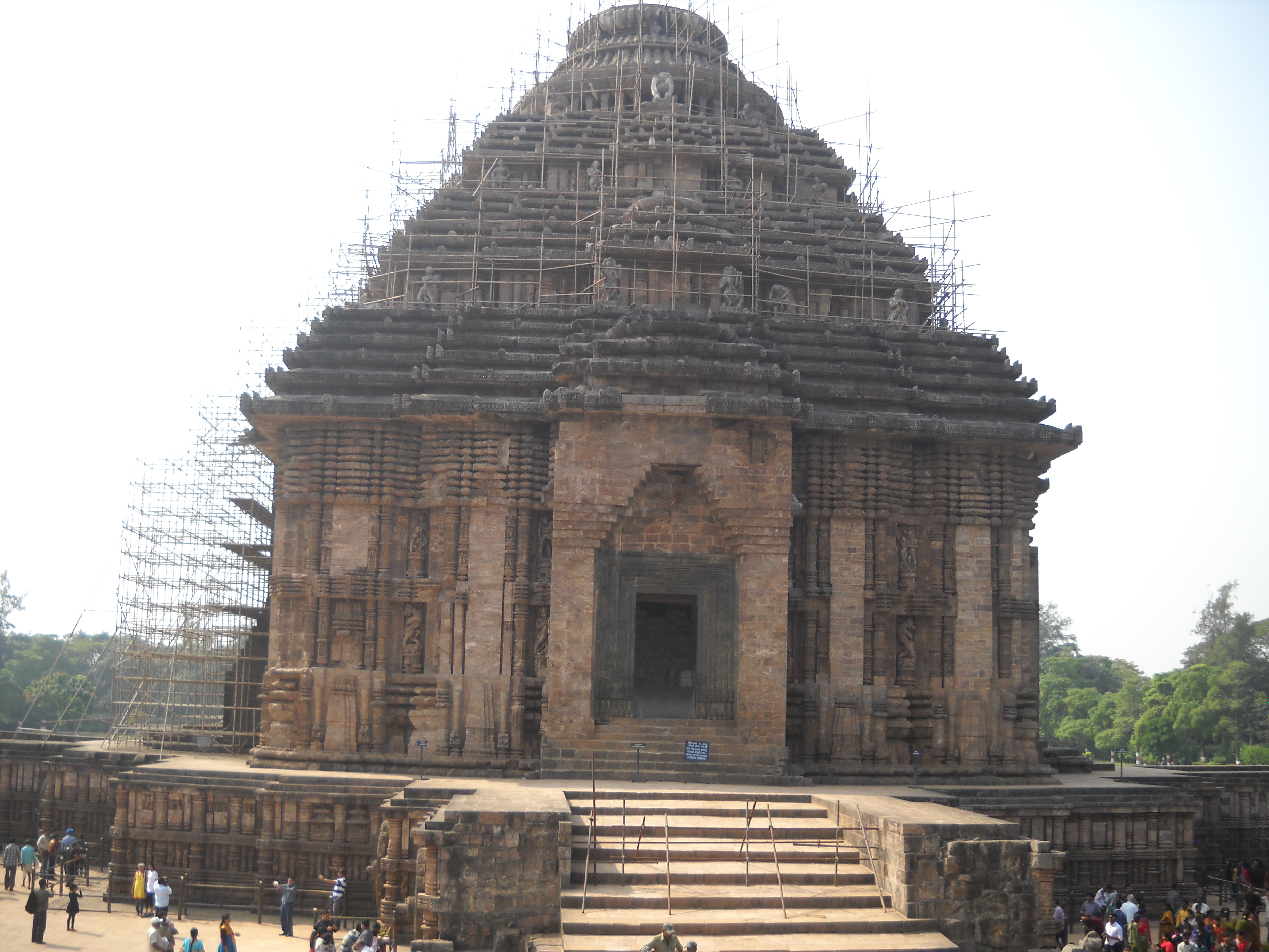 Konark Sun Temple